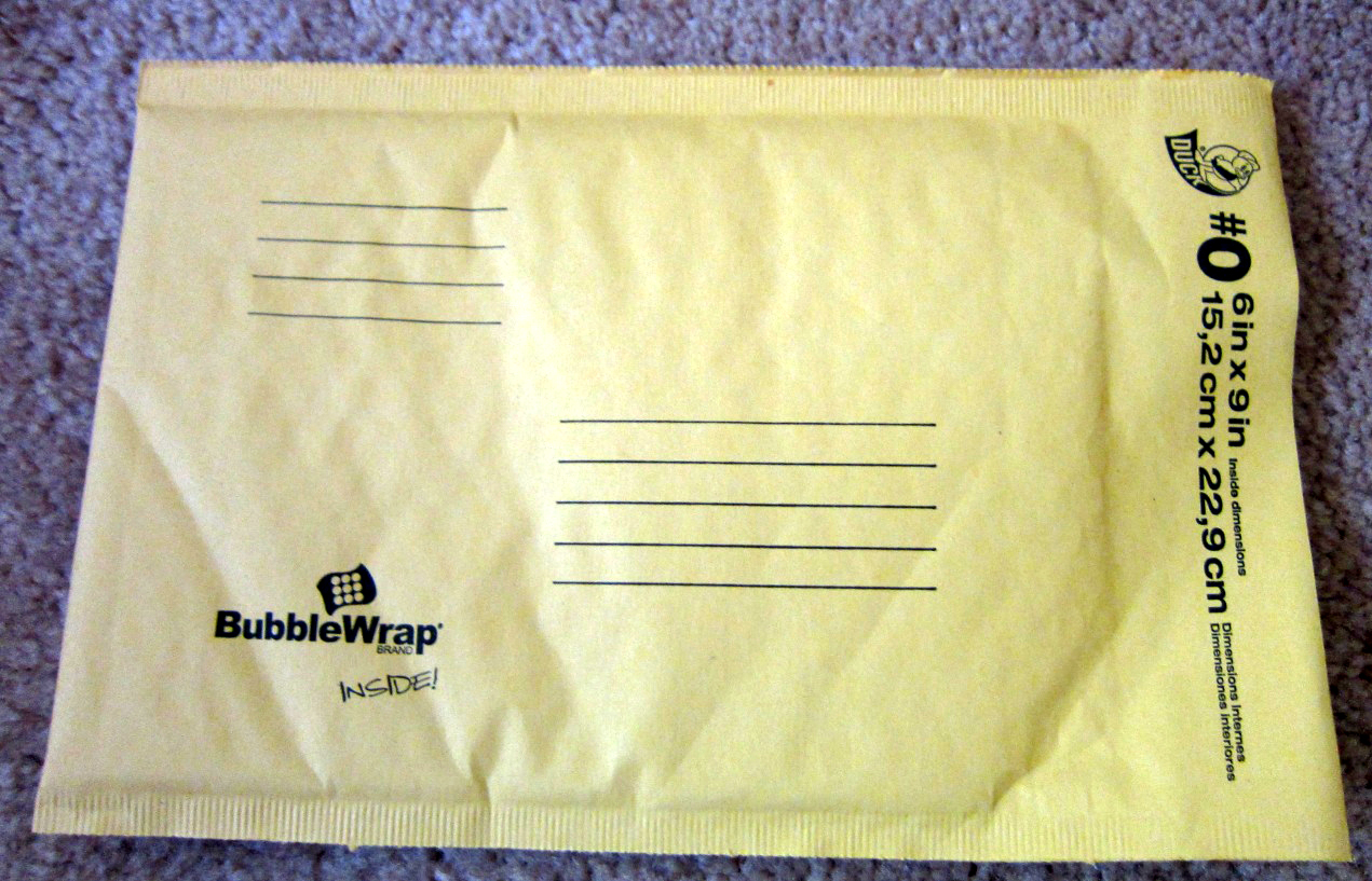 A picture of a padded mailer for said article.